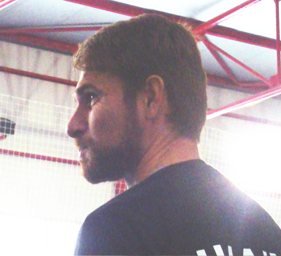 Alexandru Tudor pictured at an exhibition match.